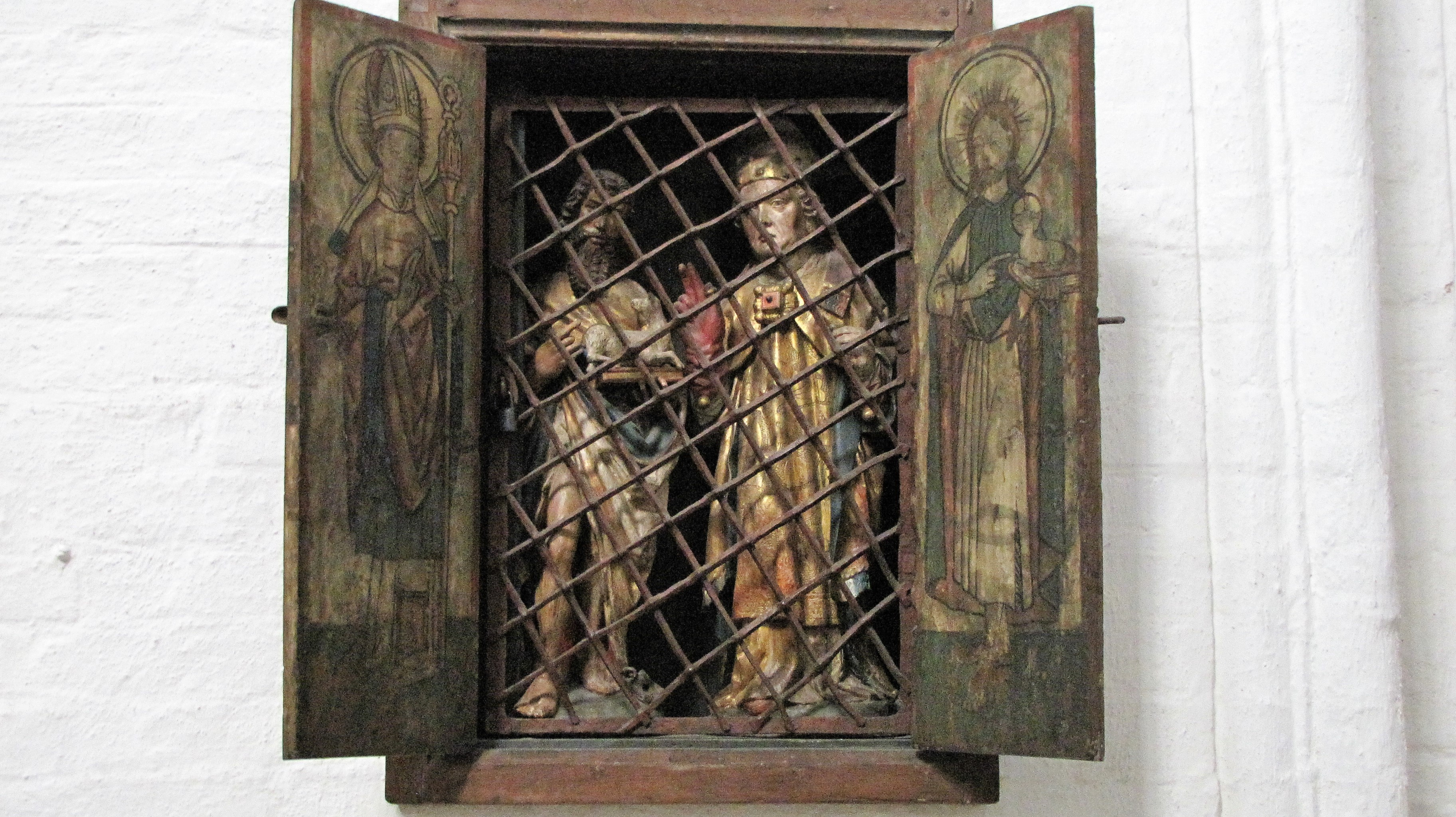 Statues of the cathedral's patron saints John the Baptis and Nicolaus in Lübeck cathedral, c. 1475, attributed to Bernt Notke, height 0,68 m (John), 0,78 (Nicolaus) The statue of John theBaptist was stolen in September 2011